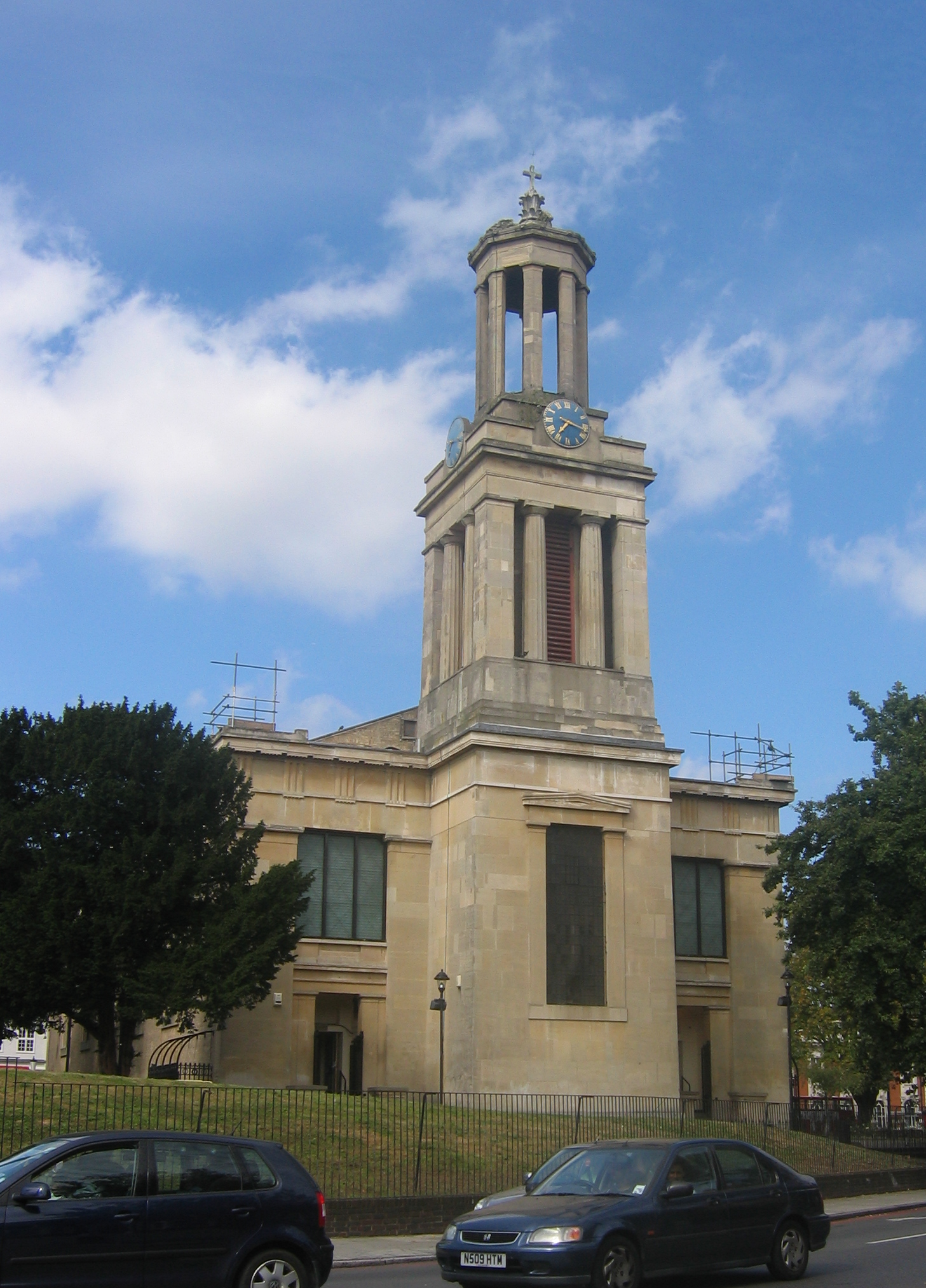 St Matthew's Church, Brixton, London, UK. The basement is the venue for the nightclub "Mass".